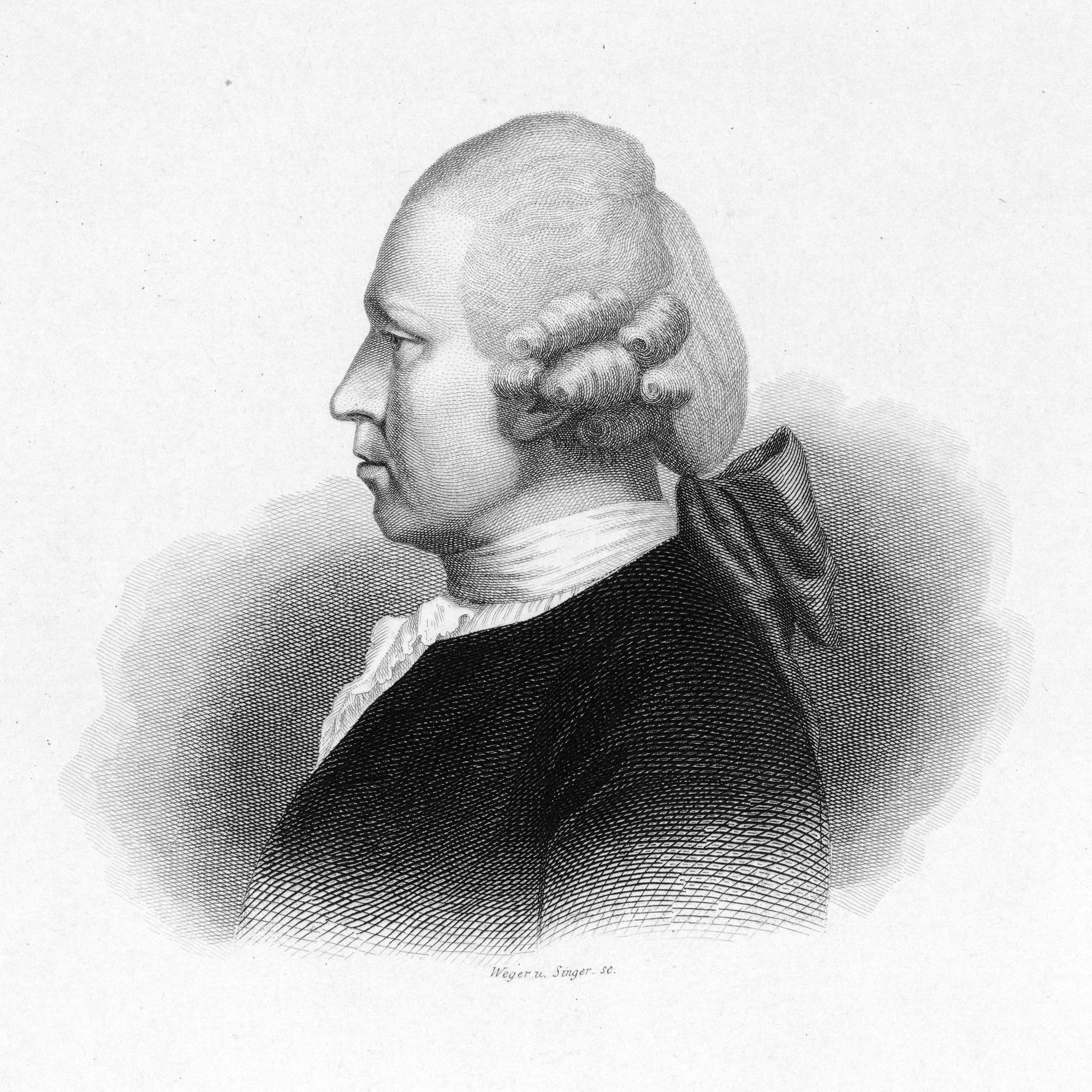 Depicted person: Johann Adam Hiller